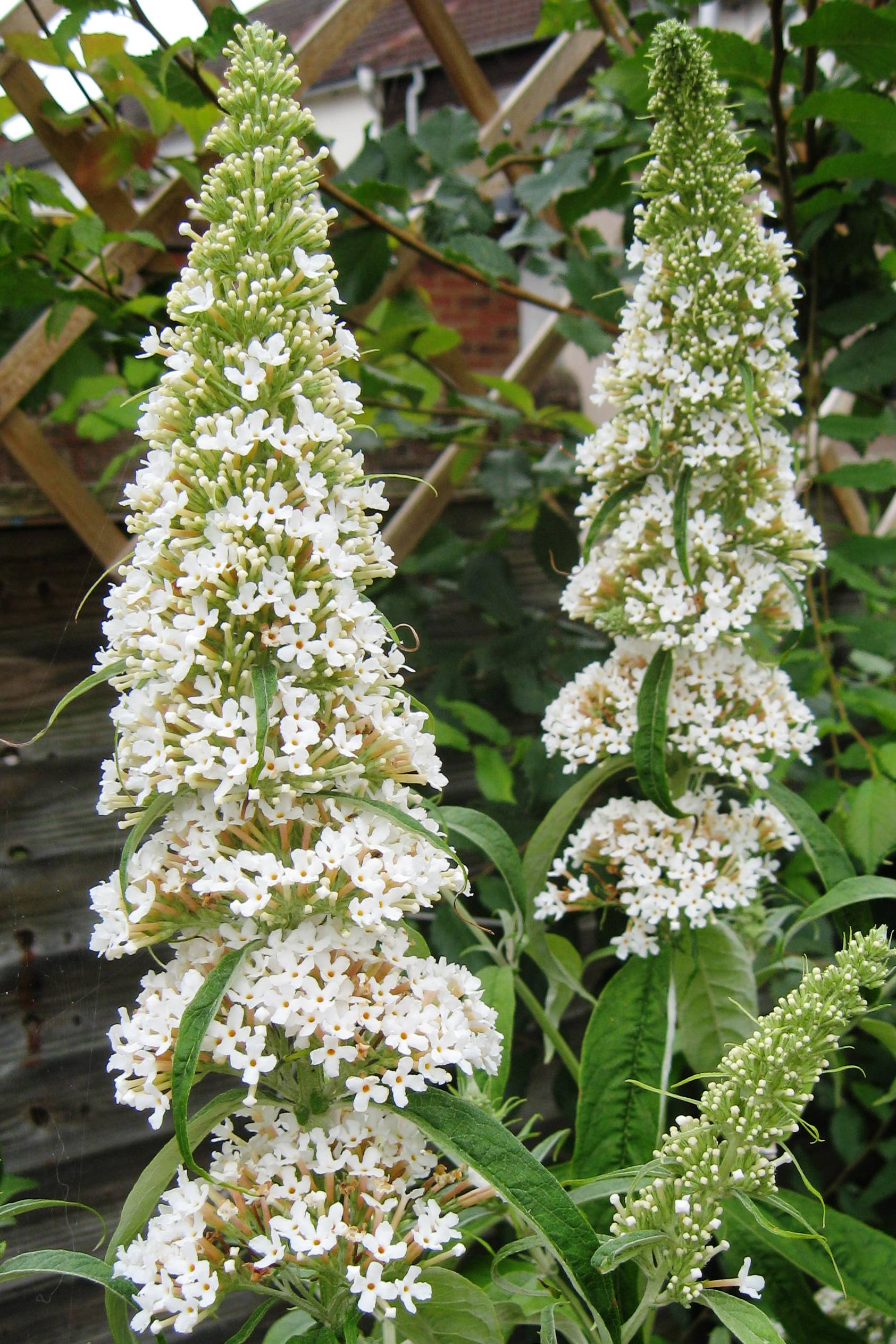 Photo of the panicles of Buddleja davidii cultivar 'Marbled White' taken at Portchester, England